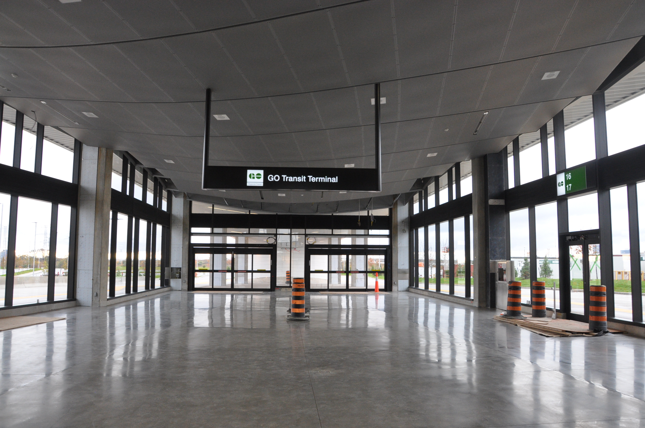 Interior of GO Transit portion of bus terminal at Highway 407 station (prior to opening).